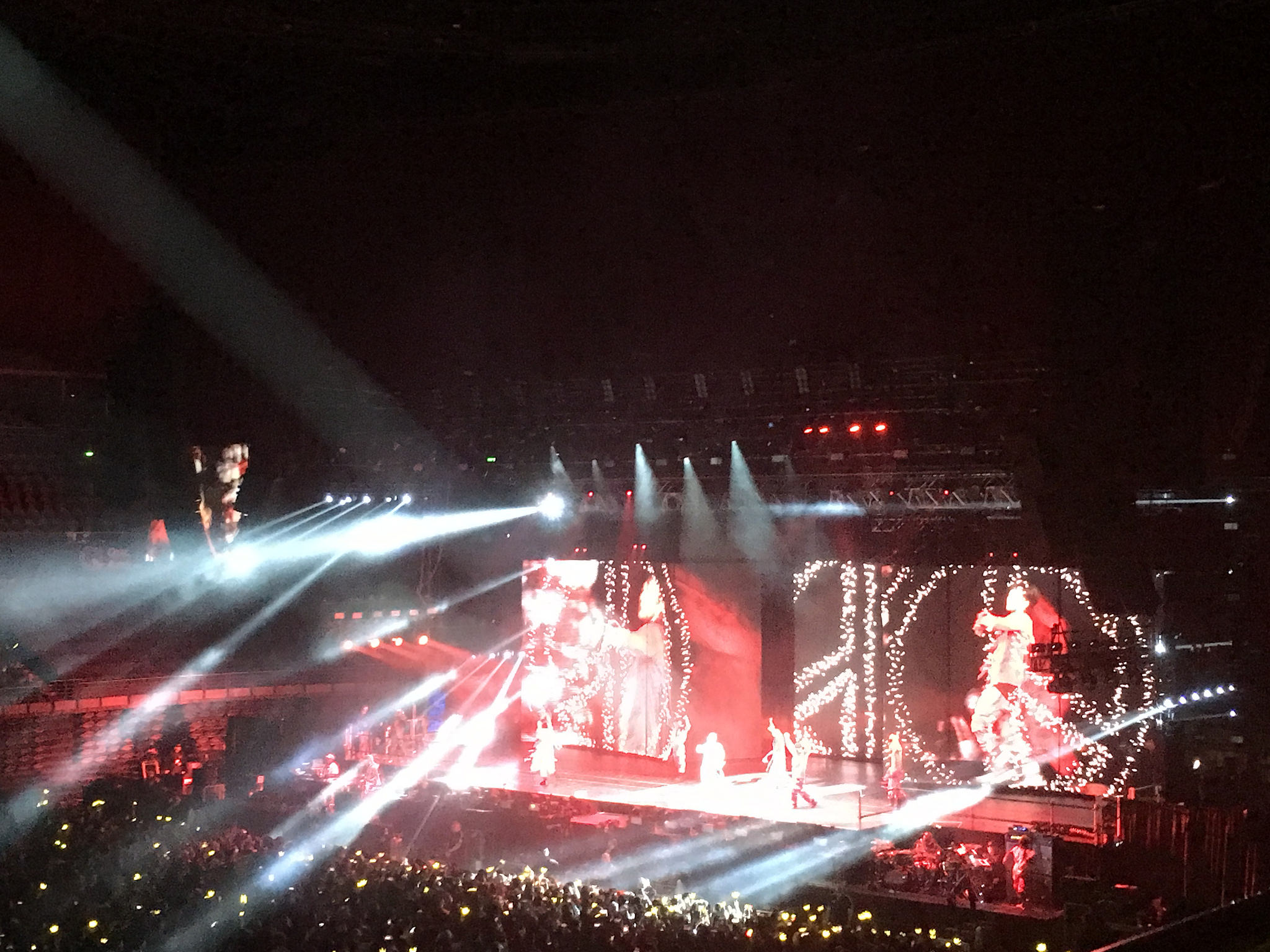 G-Dragon first solo concert in Sydney, Australia on August 5th, 2017